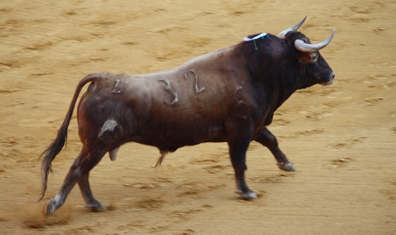 Spanish Fighting Bull II by Alexander Fiske-Harrison